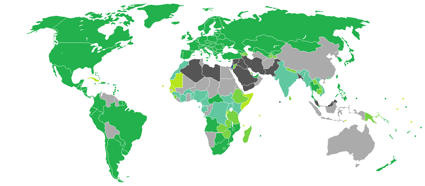 Visa requirements for Israeli citizens Israel Visa free access Visa on arrival eVisa Visa available both on arrival or online Visa required Admission refused